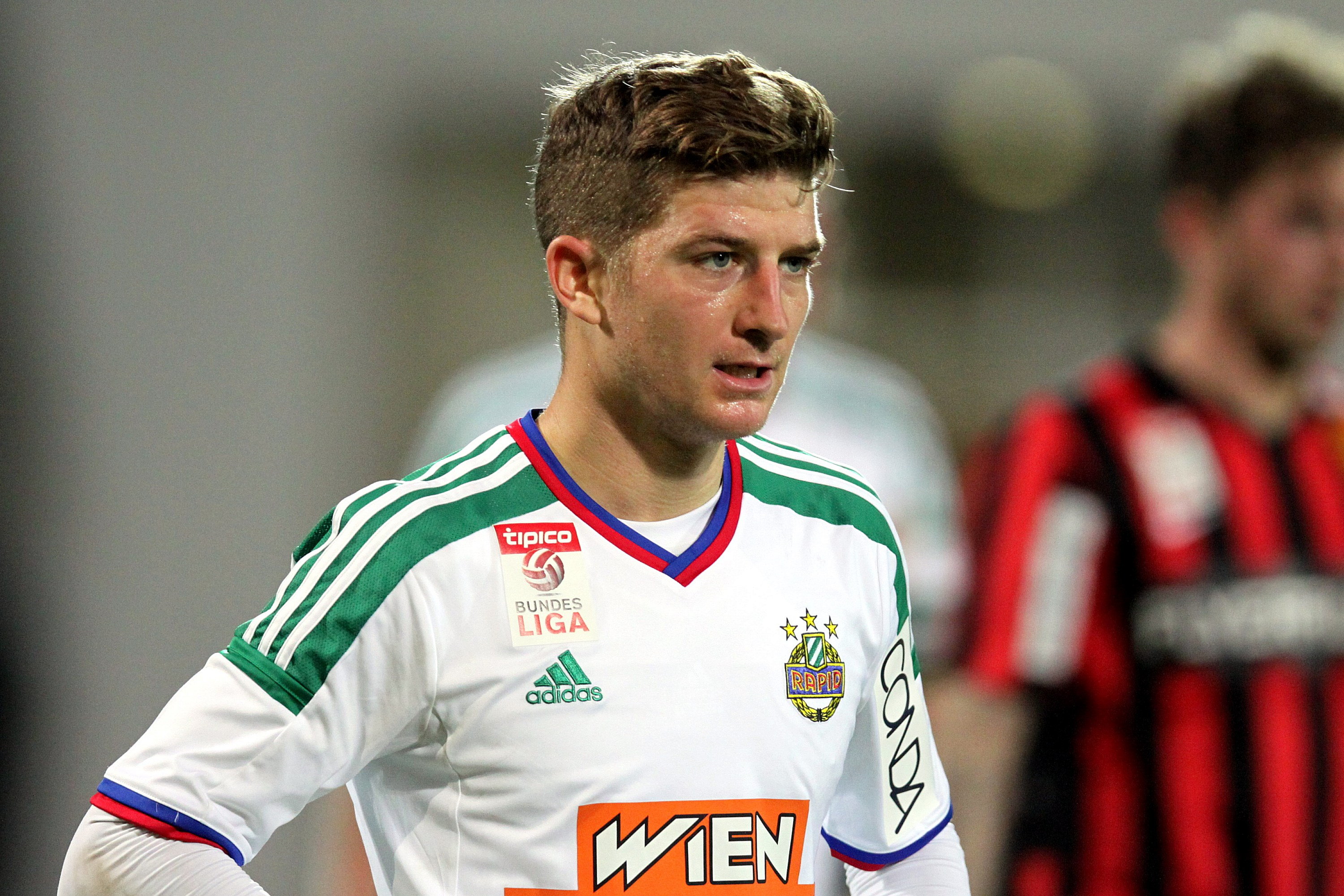 Match of the Austrian Football Bundesliga – FC Admira Wacker Mödling (red shirts) vs. SK Rapid Wien (white shirts) 2-1 (0-1) on 2015-12-02 in Bundesstadion Sudstadt – The photo shows Stephan Auer.